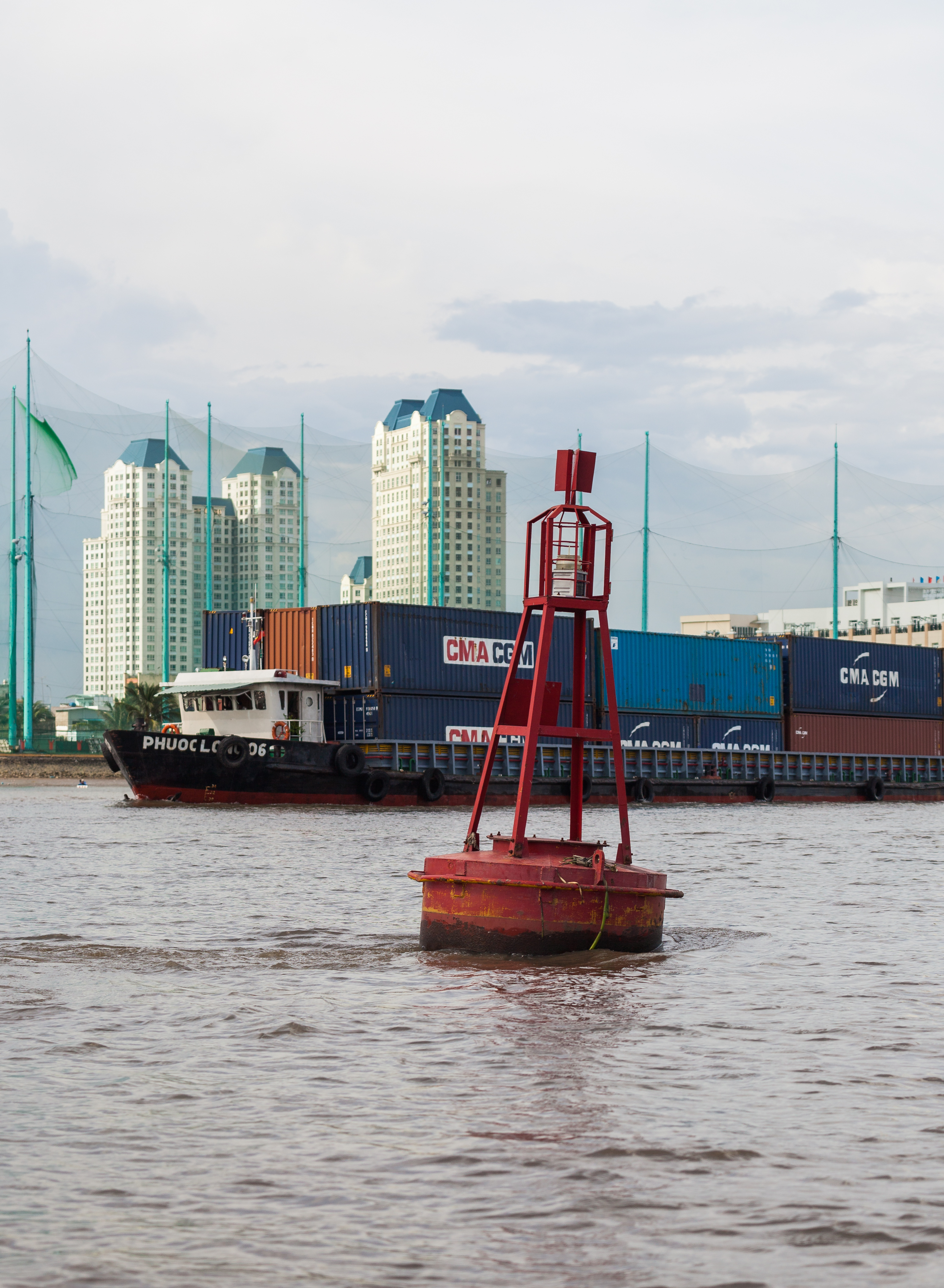 Saigon river, Ho Chi Minh City, Vietnam